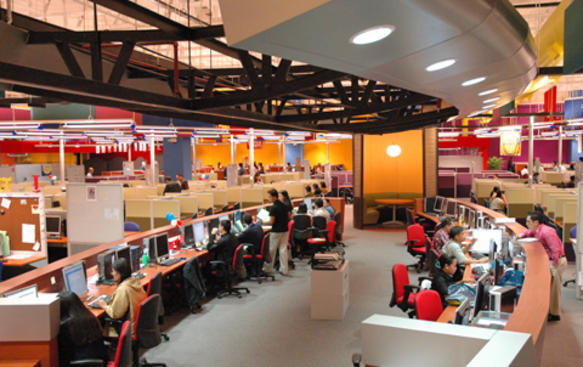 Production Floor Teletech Cainta